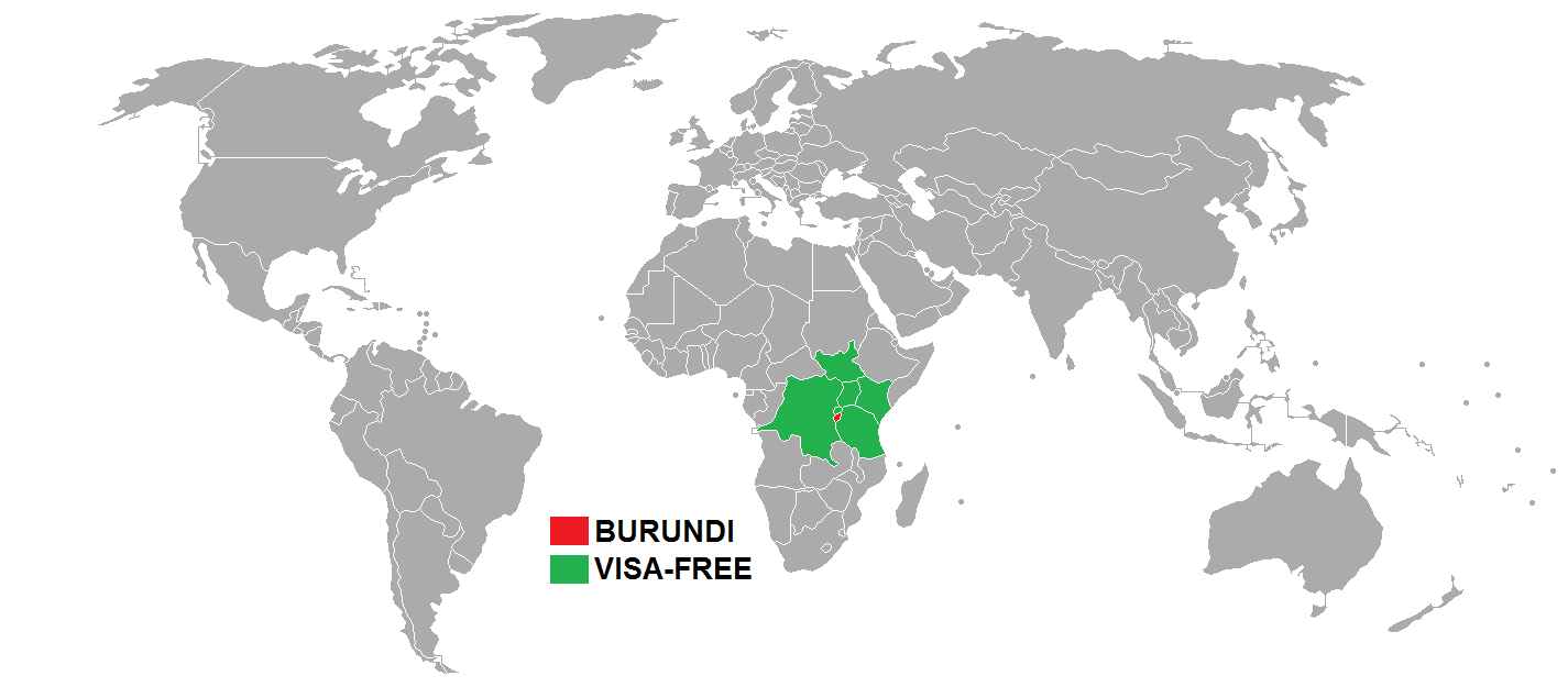 Visa policy of Burundi Burundi Visa-free